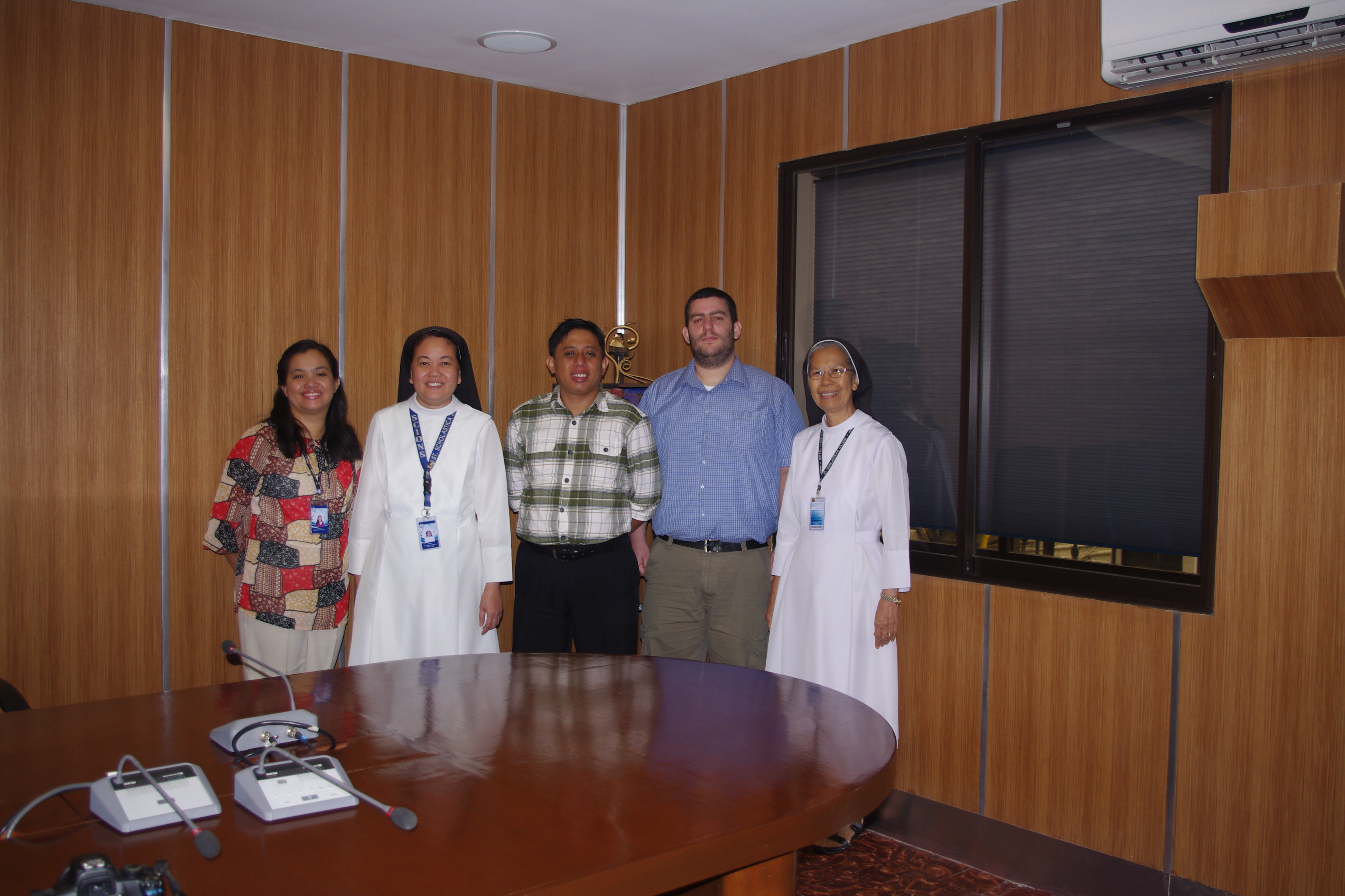 2011 Wikimedia East Asia Tour: Philippines - Meeting with St. Scholastica's College Manila officials, led by Sr. Mary Tomas Prado.